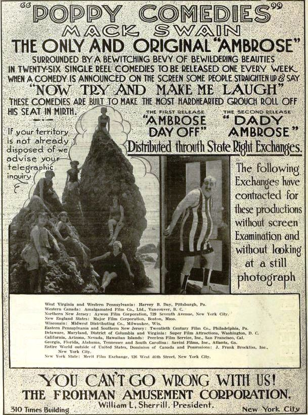 Ad for Mack Swain comedy short films such as Ambrose's Day Off (1919) and Daddy Ambrose (1919), on page 1302 of the May 31, 1919 Moving Picture World.